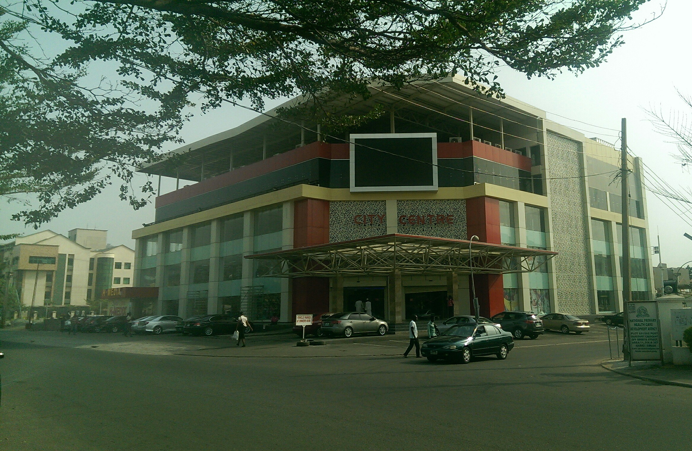 'The City Centre' a new community mall located on Gimbiya Street in Area 11